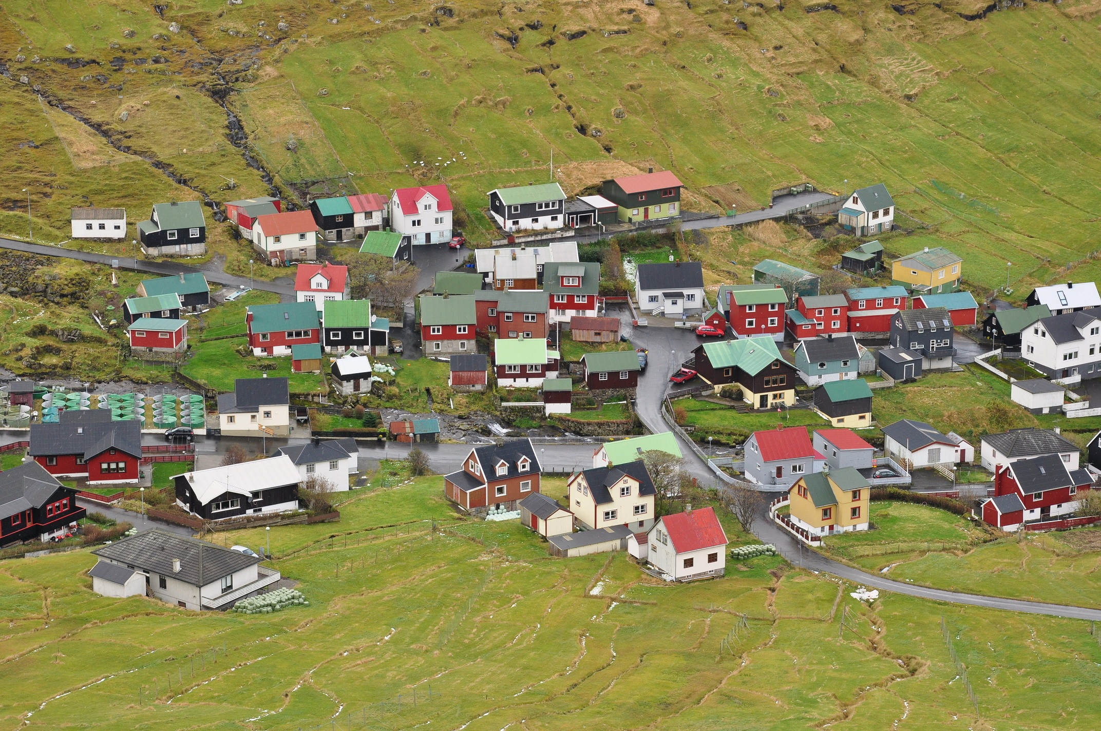 Funningur, a village on Eysturoy (Faroe Islands).